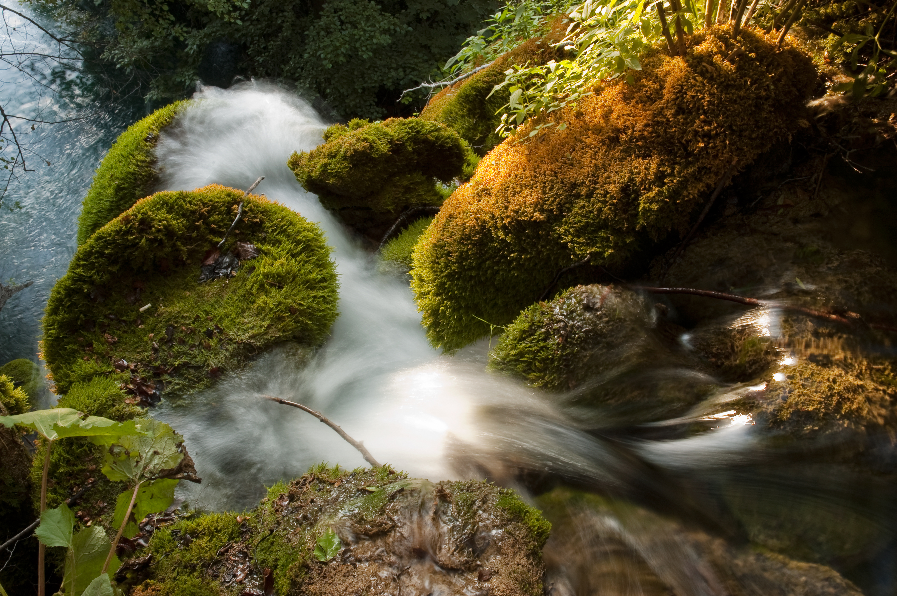 karst terraces in Plitvice National Park